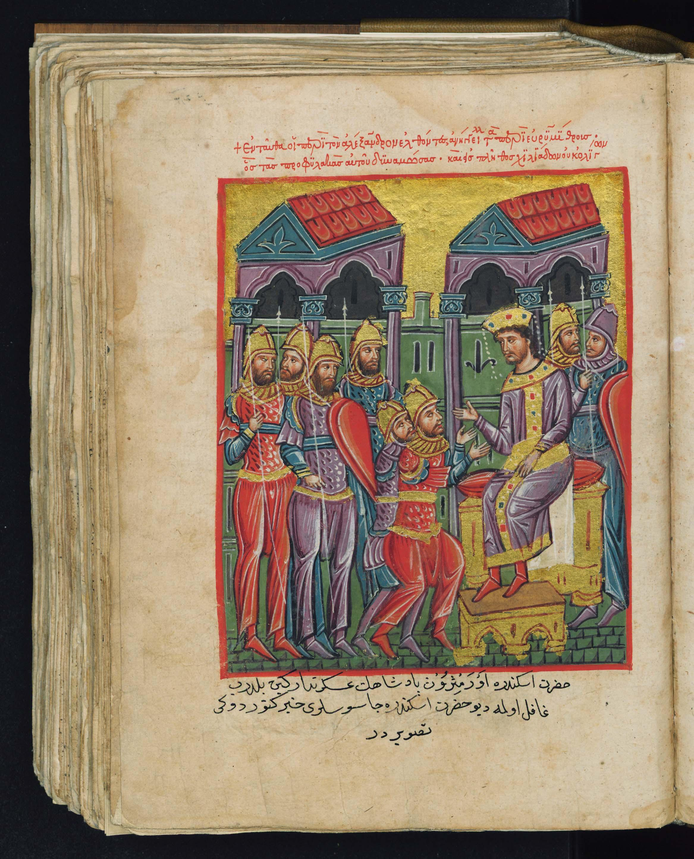 A fourteenth-century miniature Greek manuscript depicting scenes from the life of Alexander the Great, depicted entirely in Byzantine fashion of the period. Late Byzantine period (1204-1453). “Alexander Romance” in S. Giorgio dei Greci in Venice.